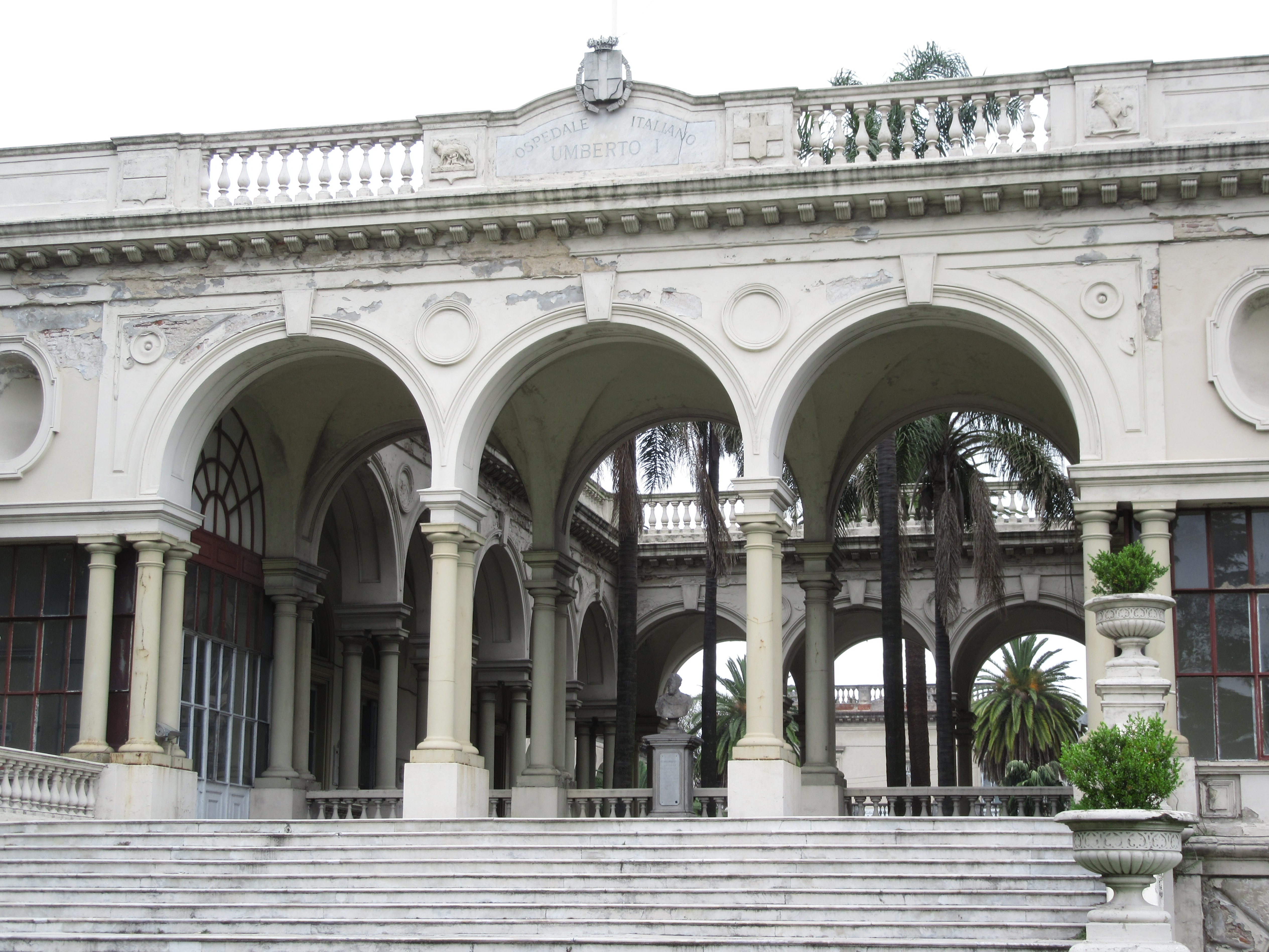 Montevideo